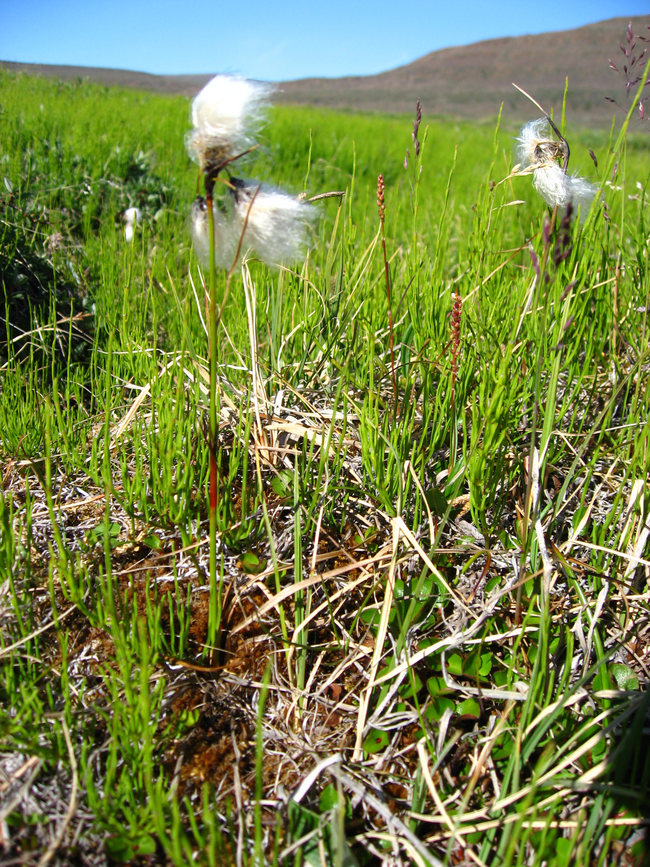 Common Cottongrass (Eriophorum angustifolium) photographed near the beach north-east of the village Upernavik Kujalleq, Greenland and close to the dog sleigh road Itivdlerssuaq.